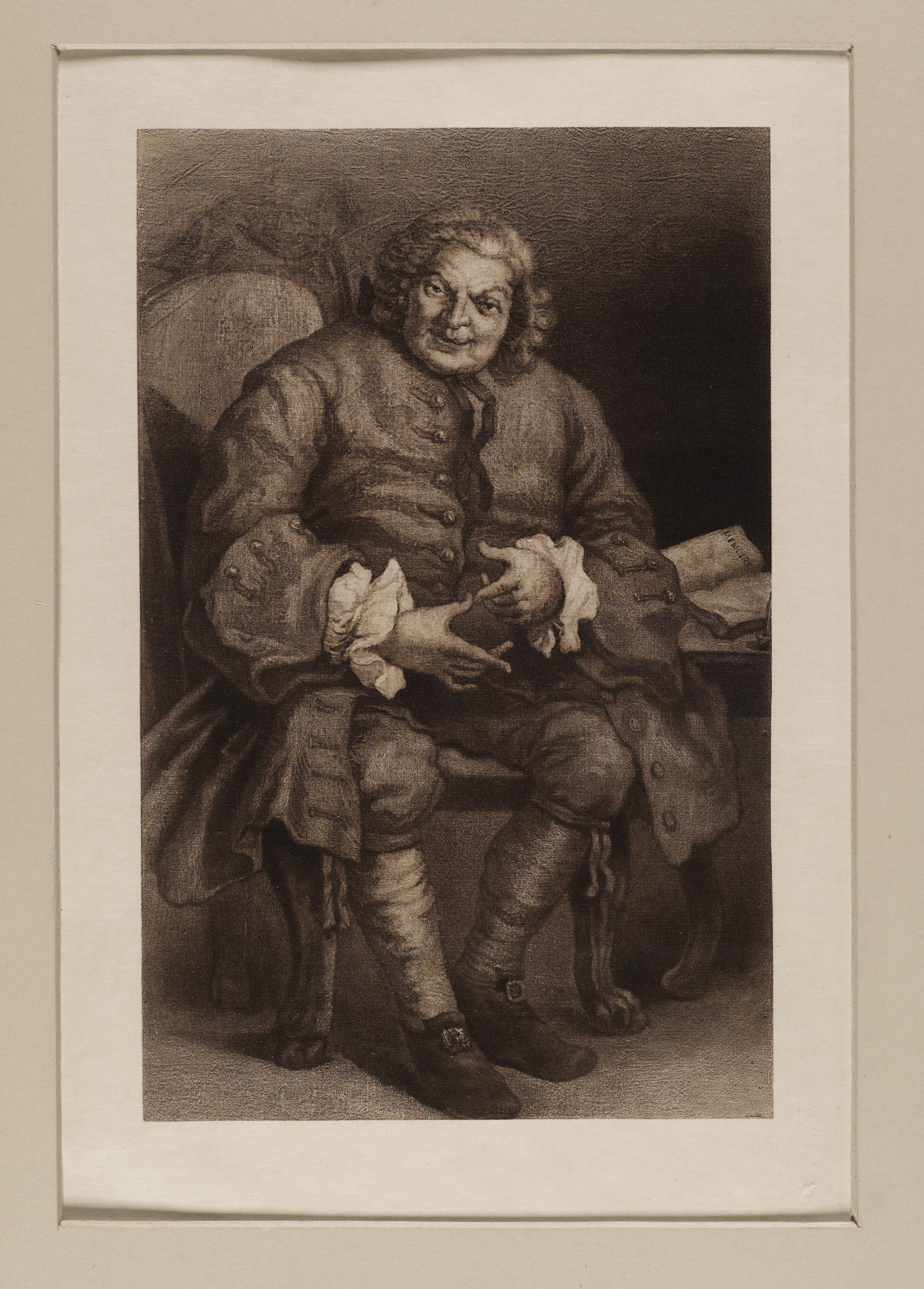 Engraving of Simon Fraser, Lord Lovat (c. 1667-1747), counting the clans Portrait of Lord Lovat, sitting on chair, book open on table next to him